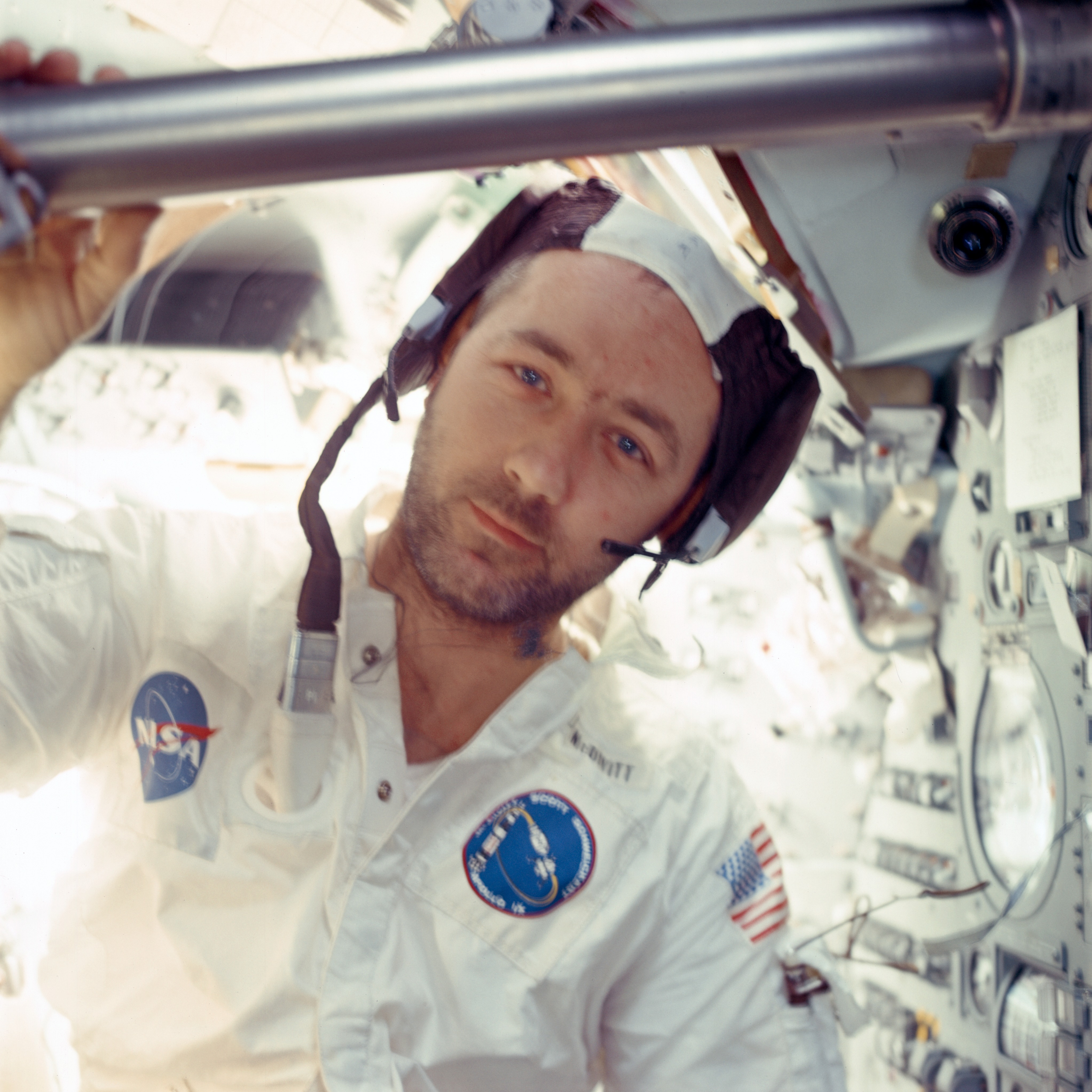 Apollo 9 mission commander James A. McDivitt inside the Command Module "Gumdrop". Photo taken by lunar module pilot Russell L. "Rusty" Schweickart. This picture's description is incorrect on the NASA gallery website; McDivitt is in fact inside the Command Module.